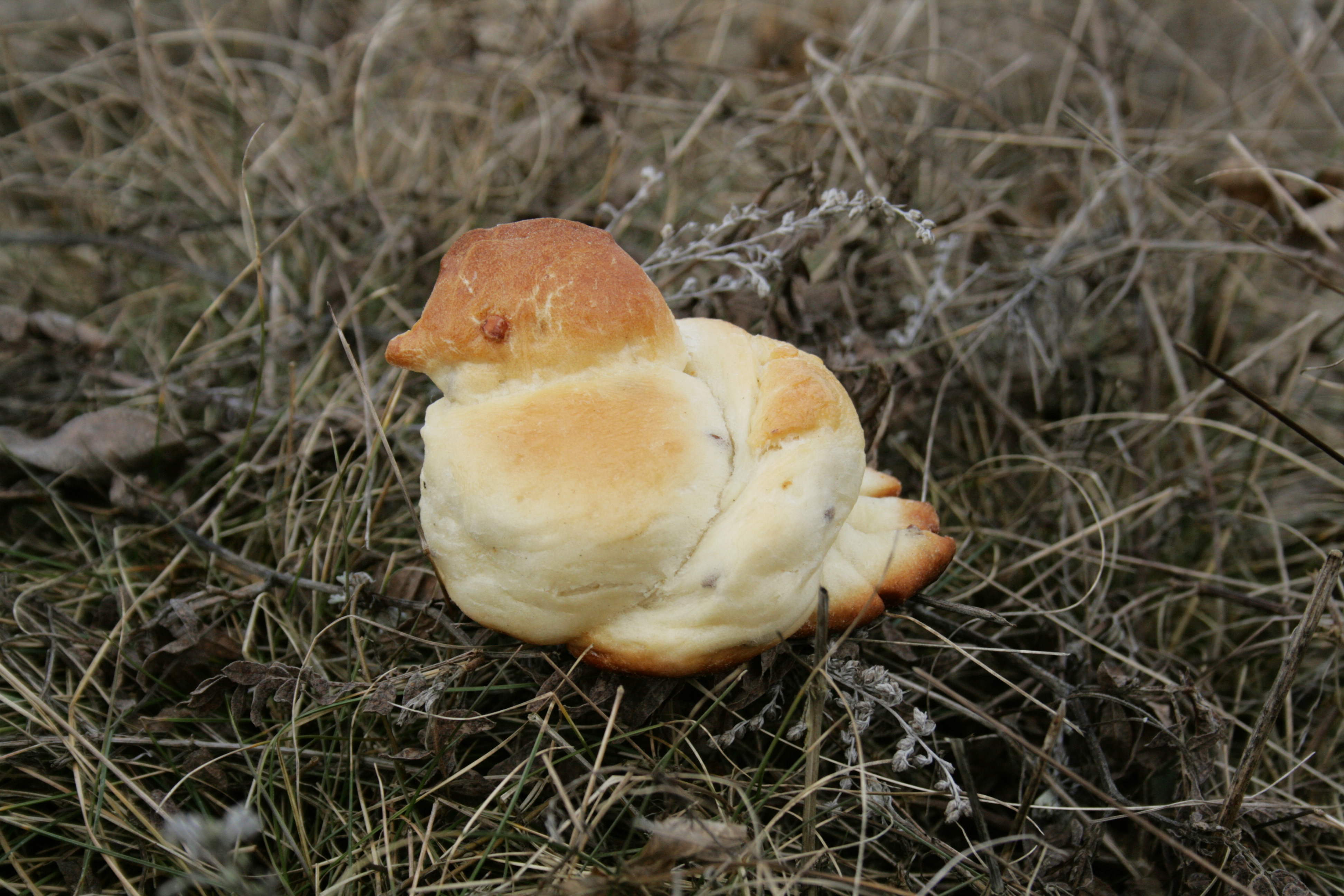 Traditionally Eastern Slavic cookies zhavoronki (translated as larks) or soroki (translated as magpies). This cookies baked on the day of the march equinox, which in pagan times was celebrated as the beginning of spring. Bread birds given to children who run in the field to call the returning birds. In the Orthodox Christian tradition, the ceremony has been associated with the celebration of Holy Forty Day, and eastern slavic sorok (translated as forty) has been associated with soroka (translated as magpie), which is not a migratory bird. The photo was taken in the ecovillage of Korenskie Rodniki, Shebekinsky District